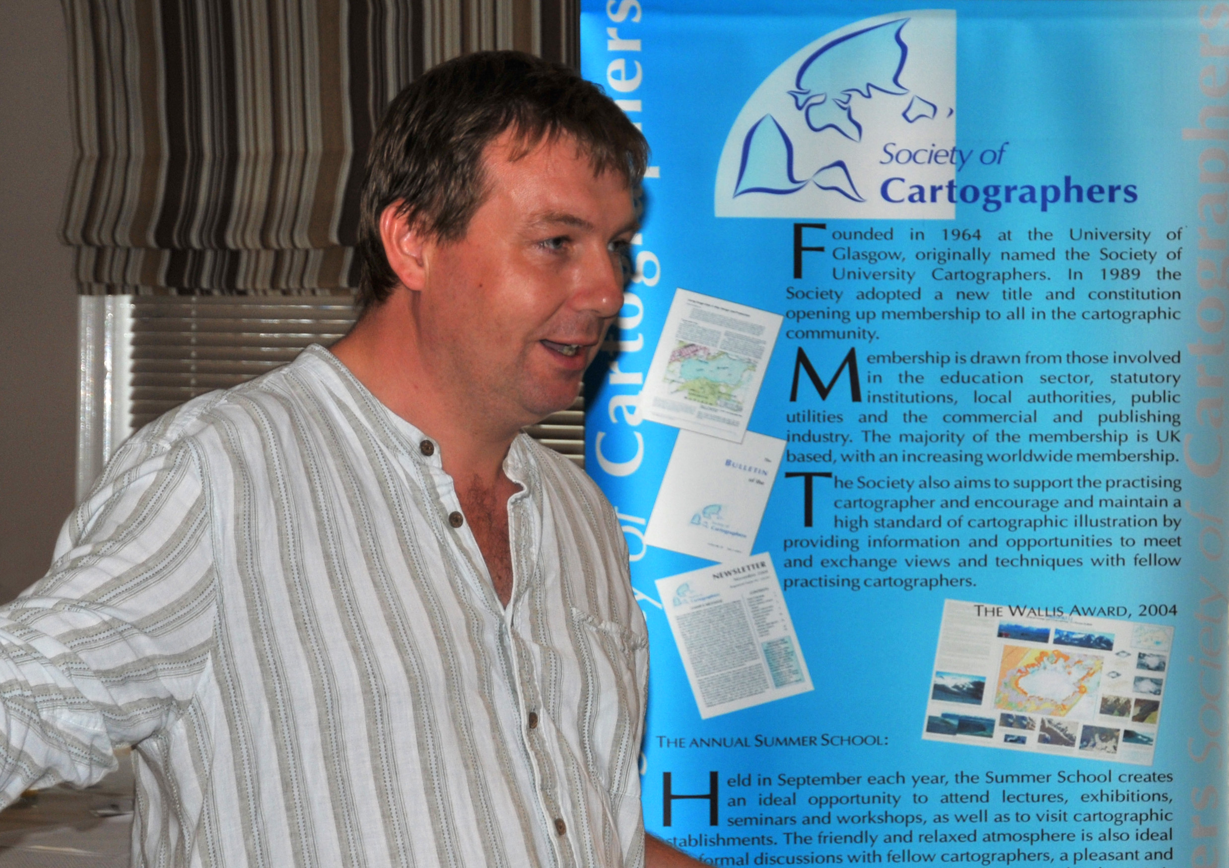 Danny Dorling